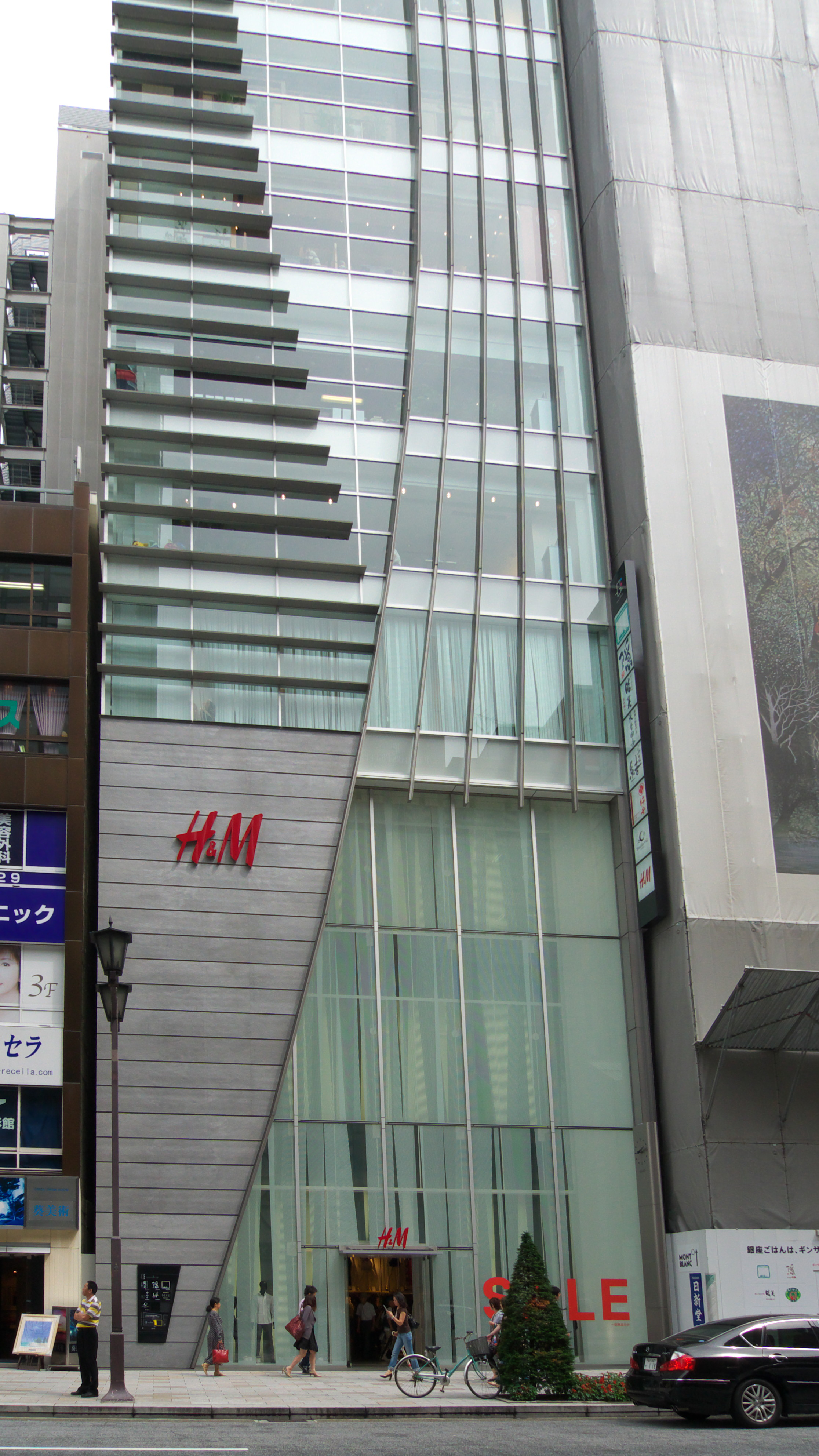 H&M Store Ginza, Tokyo